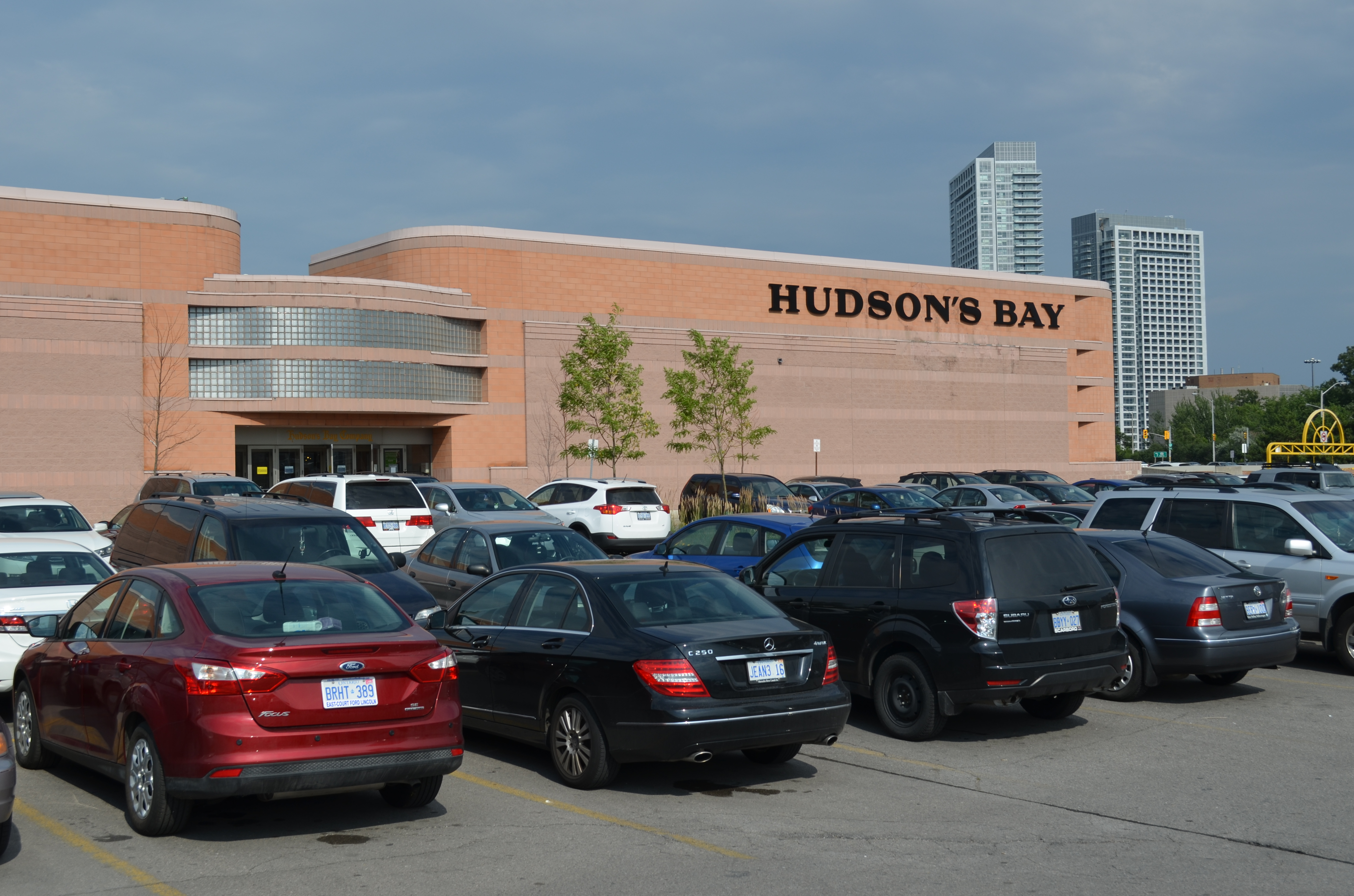 Fairview Mall Hudson's Bay